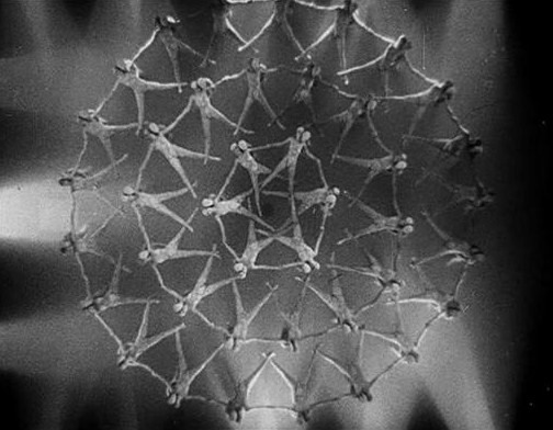 Frame from public domain trailer for Warner Bros. 1933 film Footlight Parade showing vertical wide shot of swimmers in geometric pattern in pool.